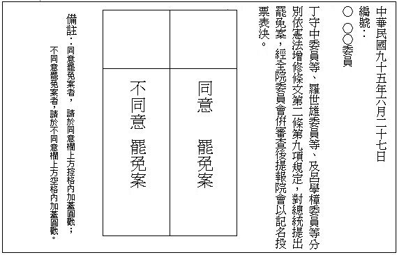 Taiwan ballot